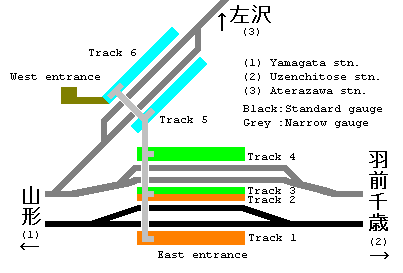 Kitayamagata Station diagram Black…Standard gauge Grey…Narrow gauge